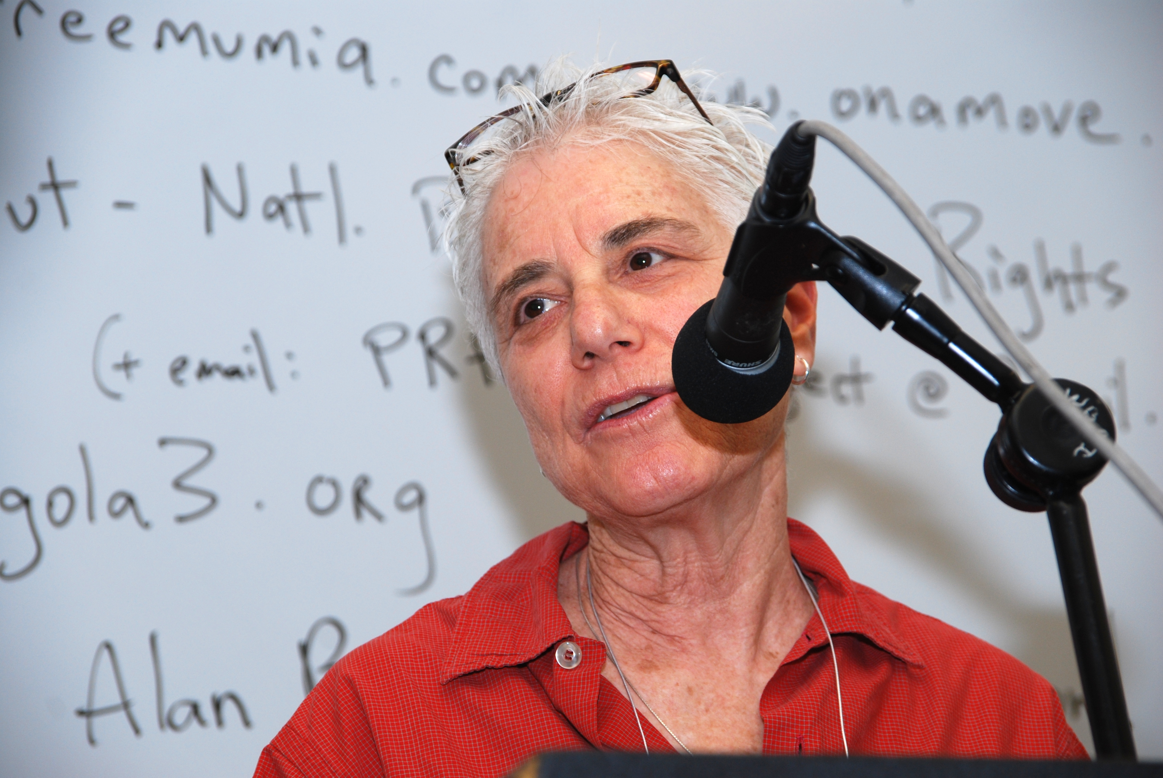 Former political prisoner Laura Whitehorn speaking at the Left Forum in New York City.